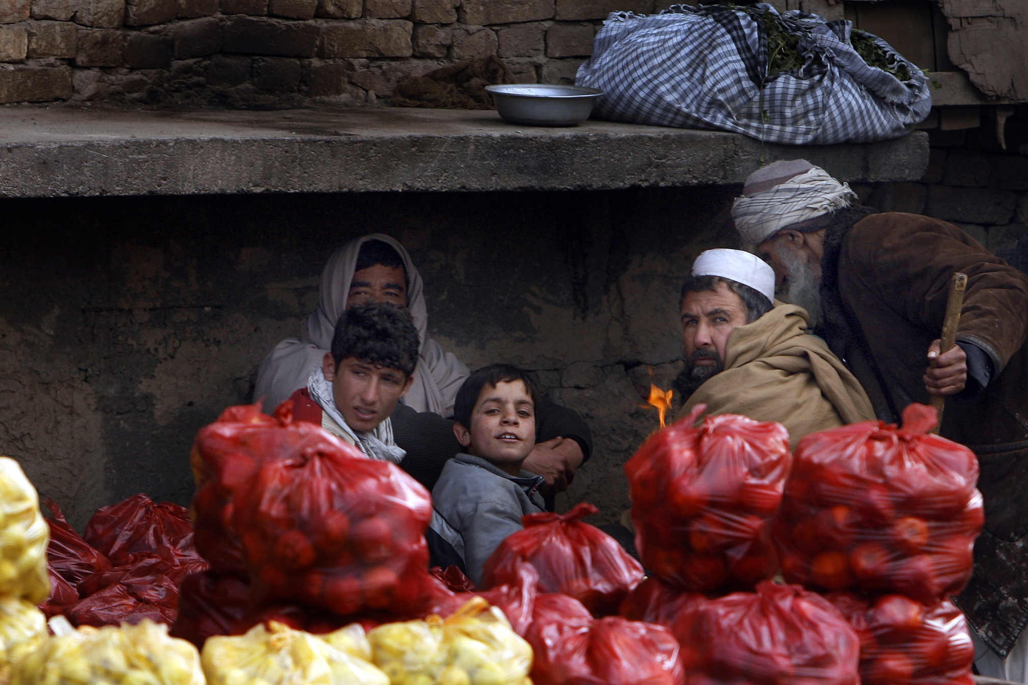 Afghan market vendors and children stay warm at a small fire in the marketplace.